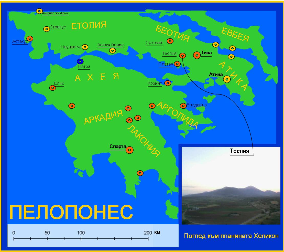 Thespia